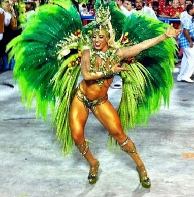 This picture depict the participation of Andrea Andrade at Vila Isabel parade on Rio de Janeiro samba Carnival 2013